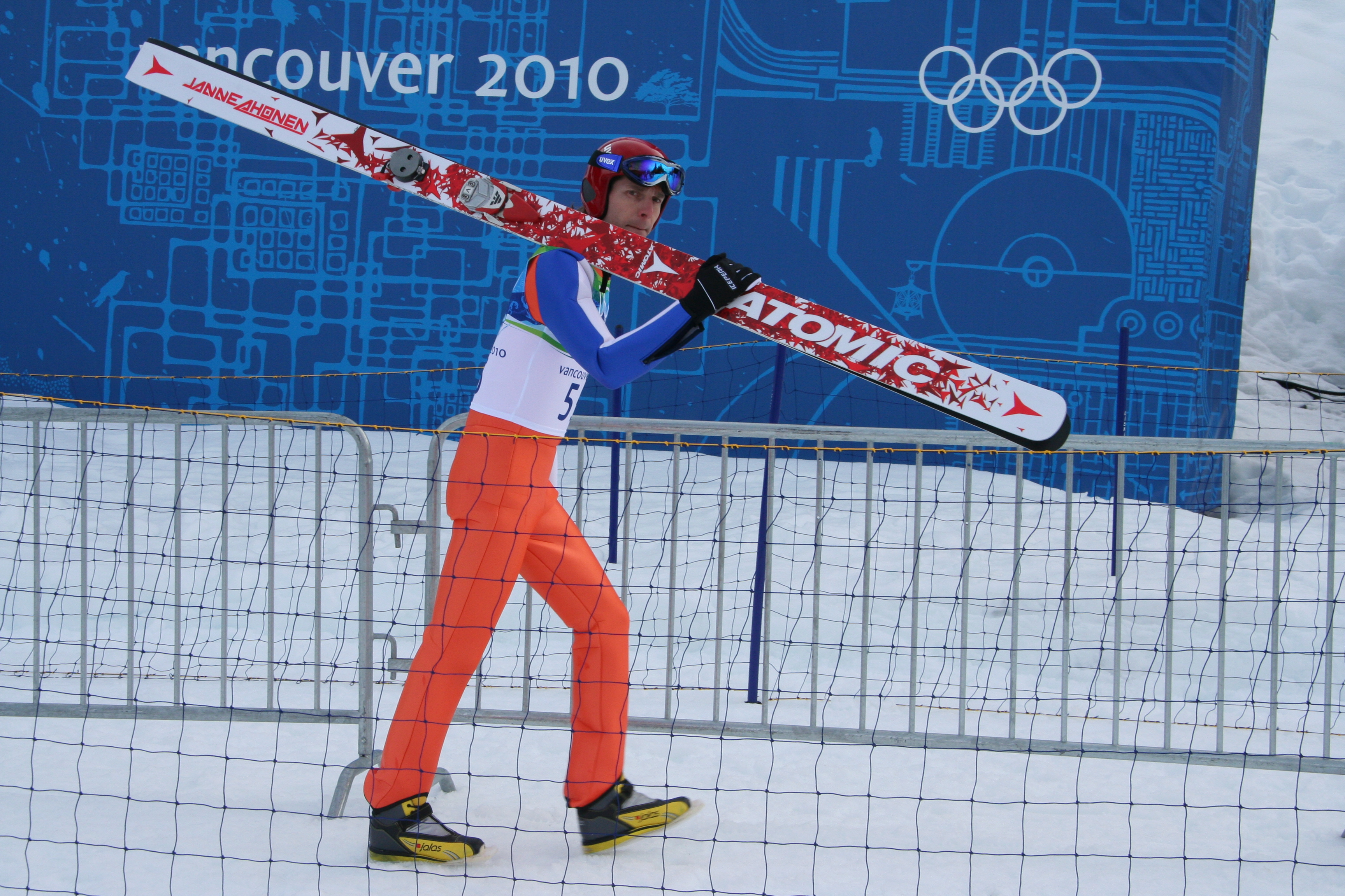 Janne Ahonen at 2010 Winter Olympics.